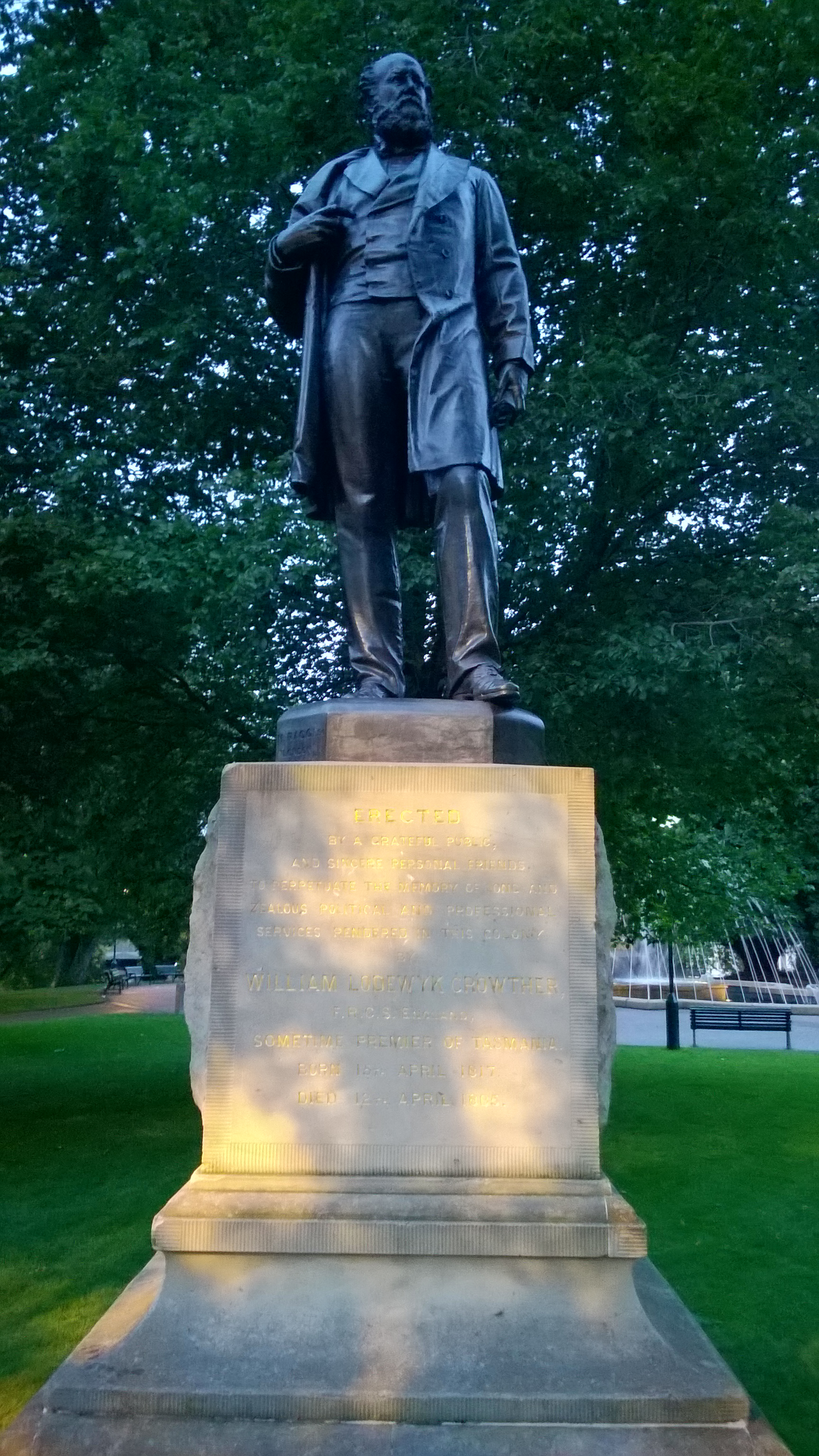 Statue in Franklin Square, Hobart